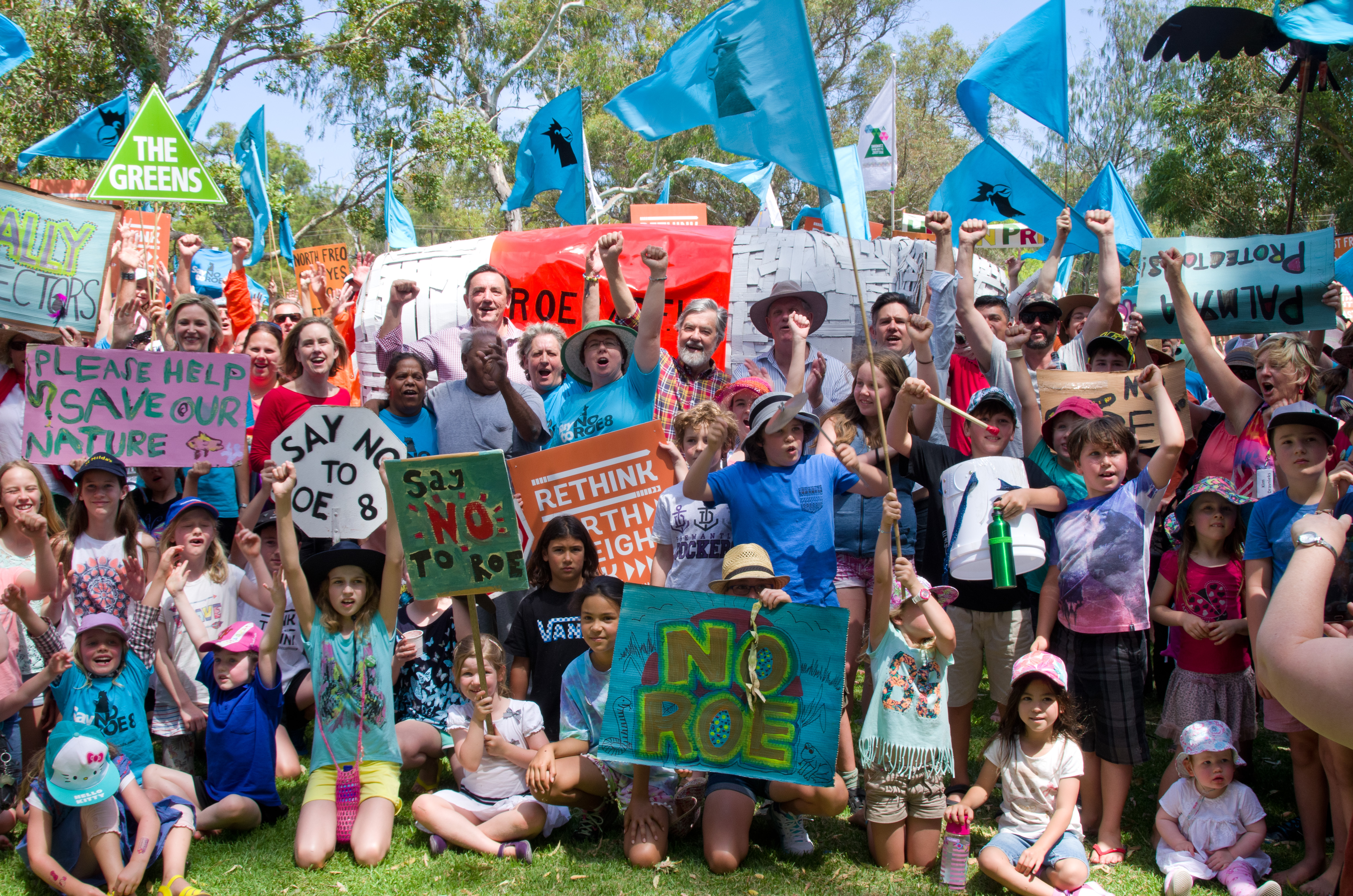 Protest against the Roe 8 / Perth Freight link proposal